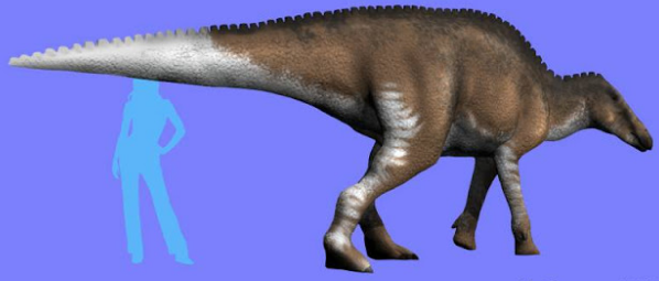 Riabininohadros weberae by Nobu Tamura